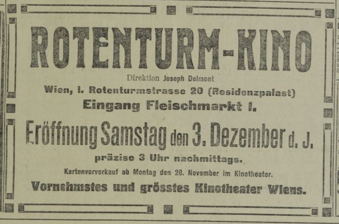 Kino Rotenturm, Wien, advertisement